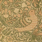 Detail of Dove and Rose jacquard-woven silk and wool doublecloth furnishing textile, designed by William Morris. (Identification from Linda Parry, ed.: William Morris, Abrams, 1996, ISBN 0-8109-4282-8, p. 272)